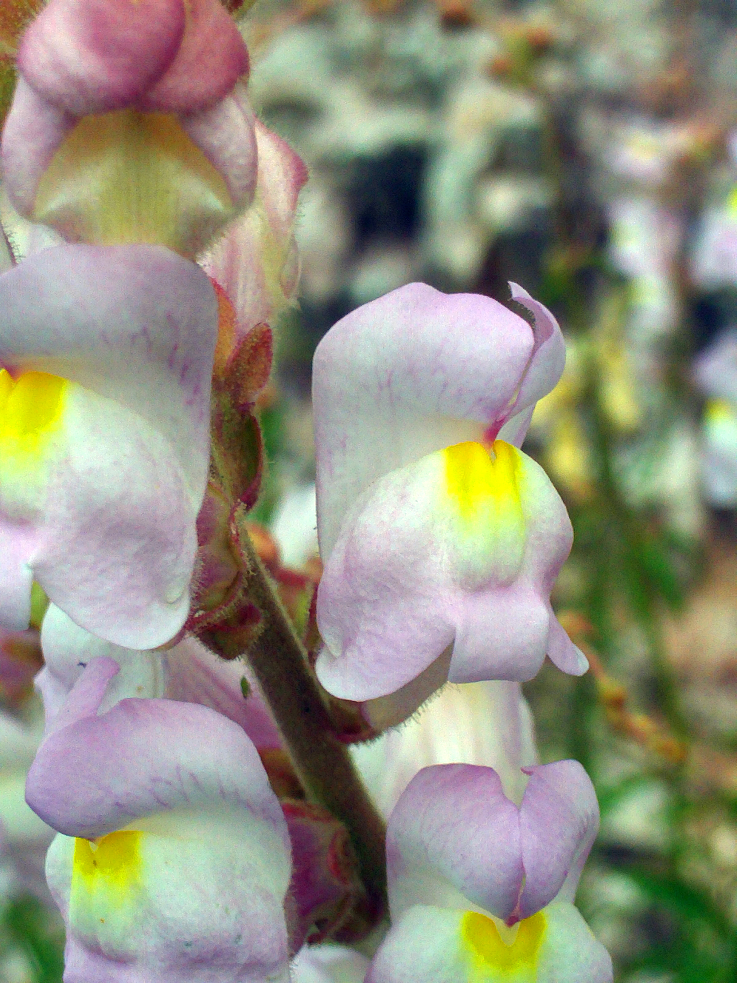 Antirrhinum graniticum subsp. onubensis flowers close up, Sierra Madrona, Spain